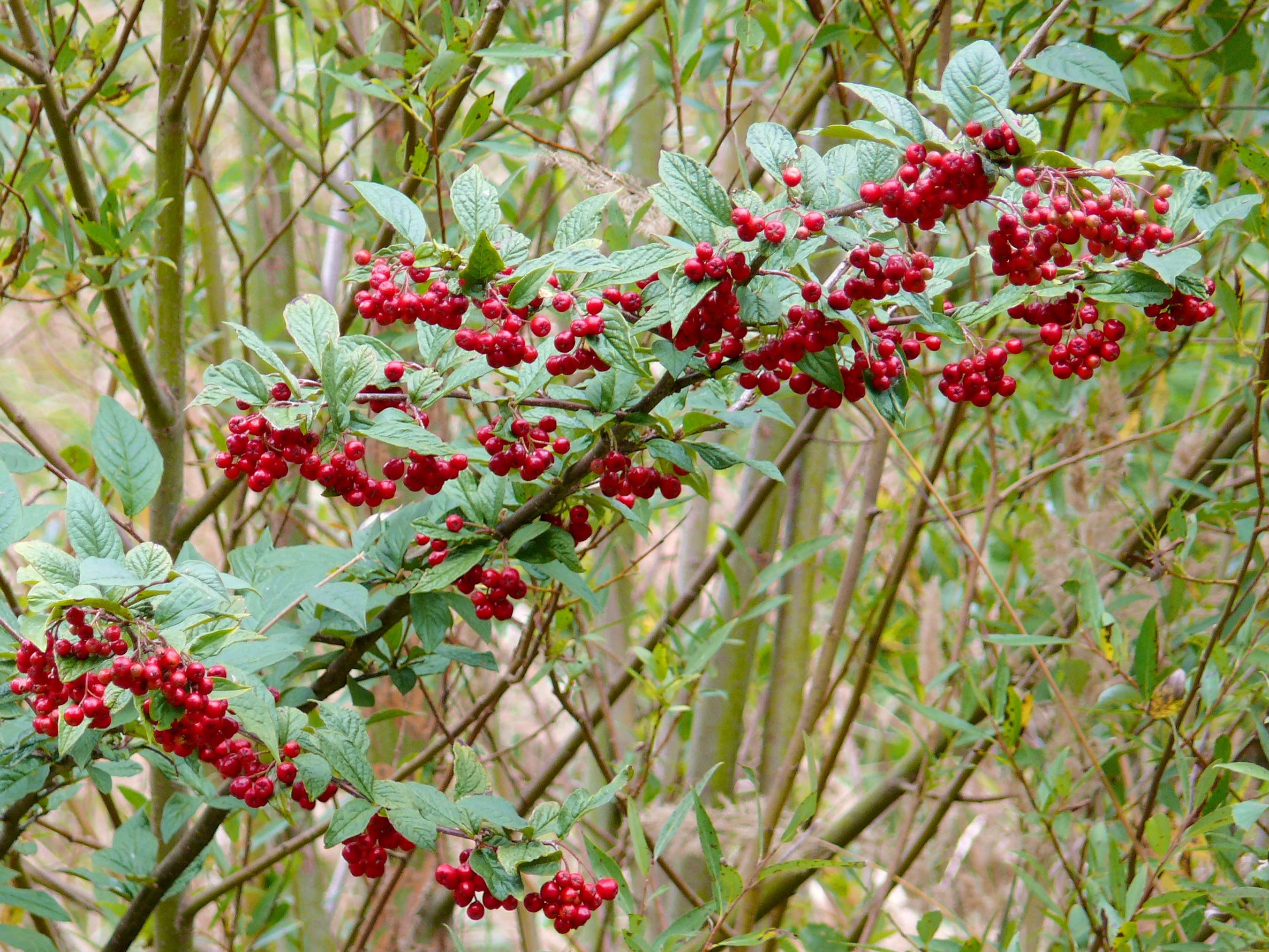 Cotoneaster bullatus, neophytic